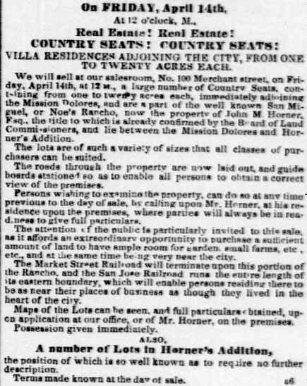 Advertisement of land sale of plots of land in Noe Valley, San Francisco April 6, 1854